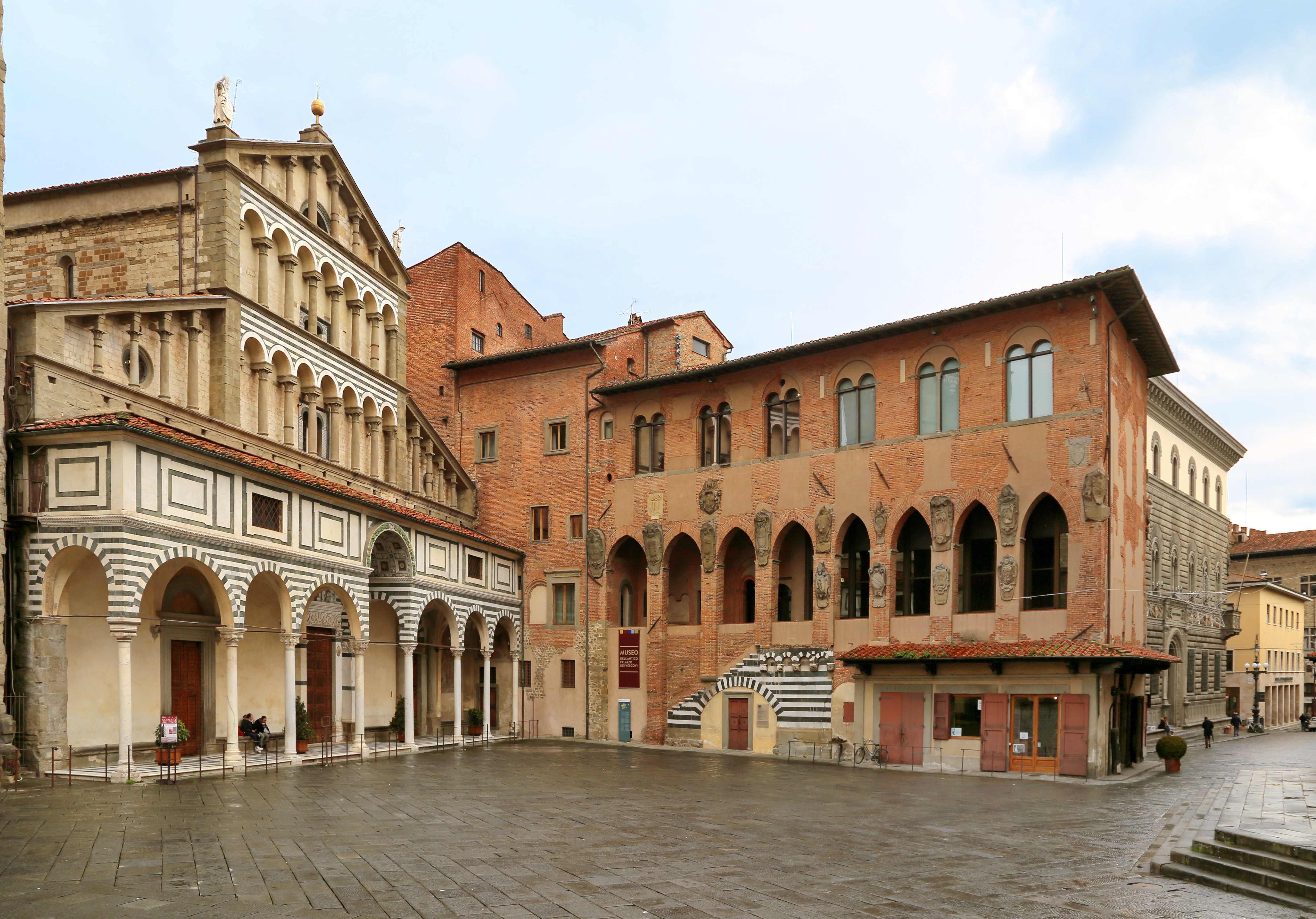 Palaces in Pistoia